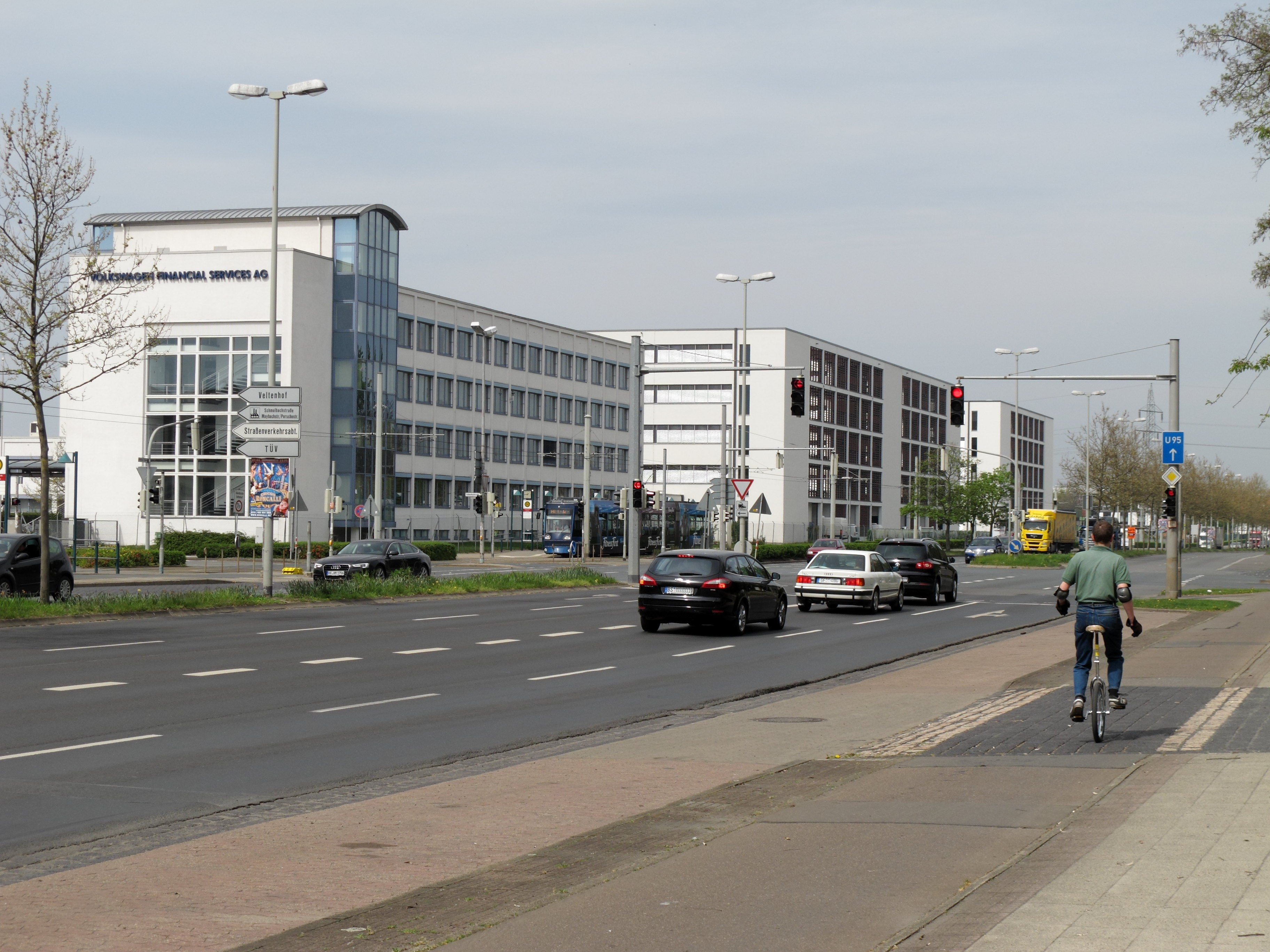 Brunswick Rühme